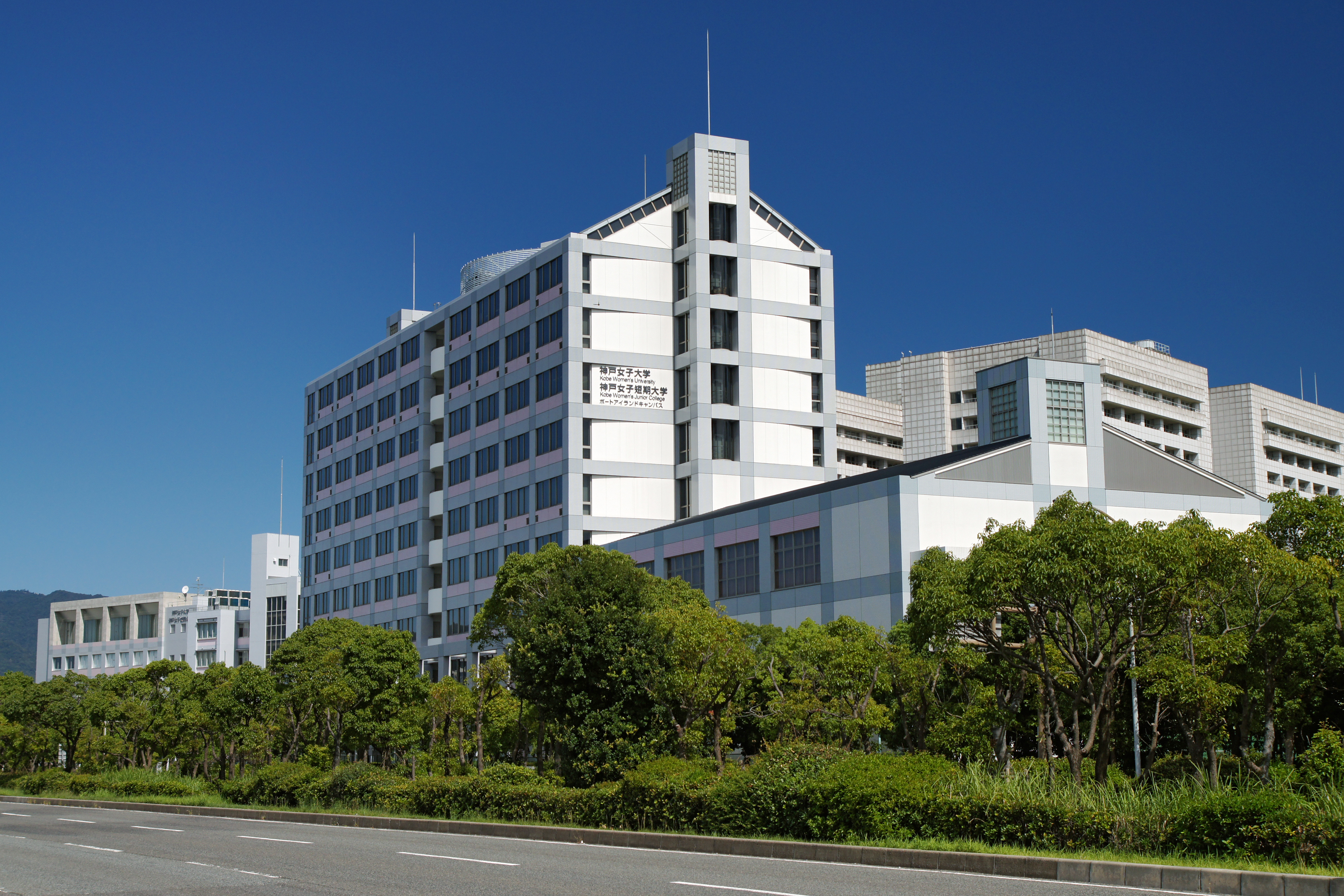 Kobe Women's University Port Island campus and Kobe Women's Junior College in Kobe, Hyogo prefecture, Japan.